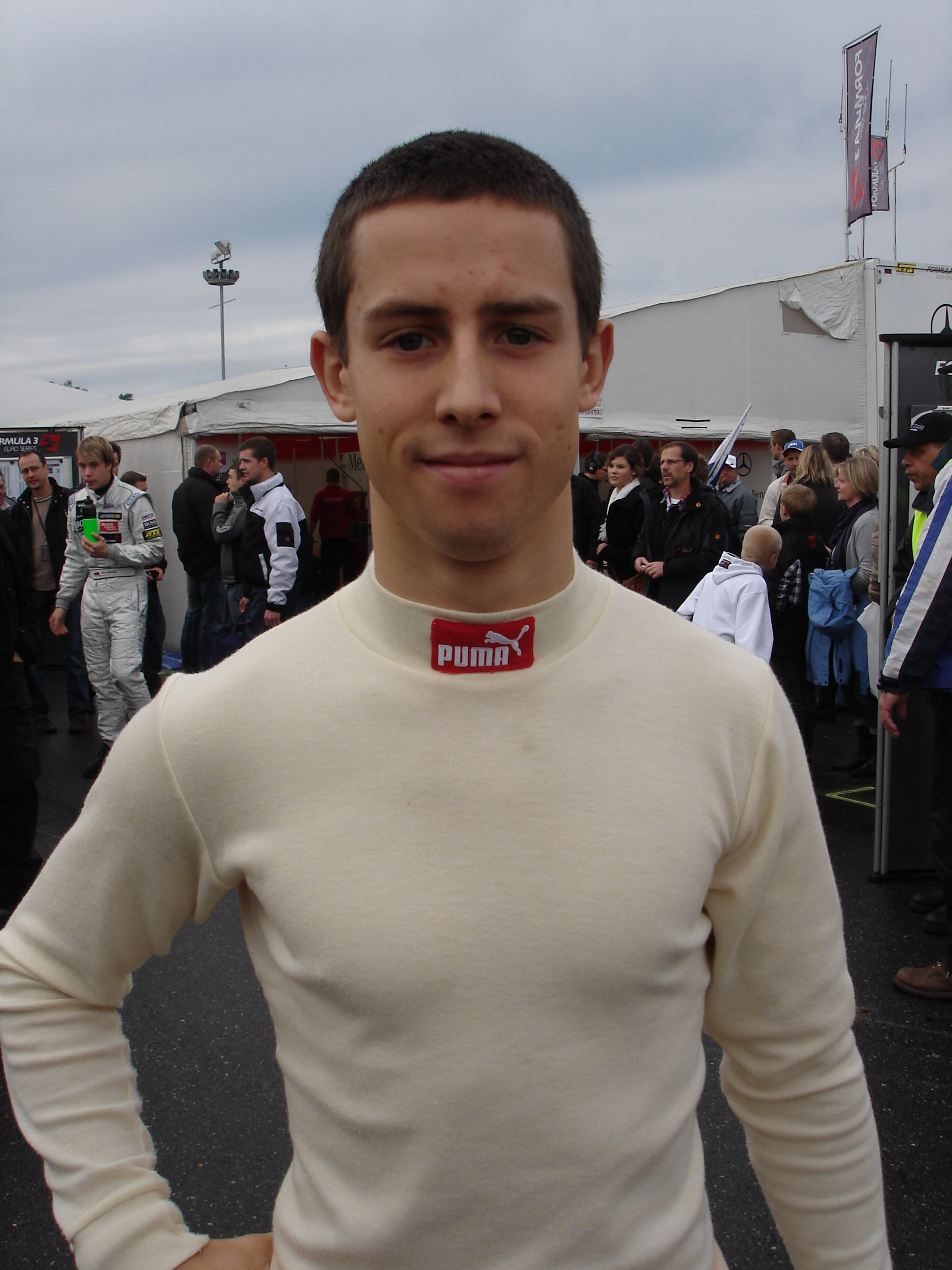 Alexander Sims: the photo was taken during 2009's second DTM race weekend at Hockenheim